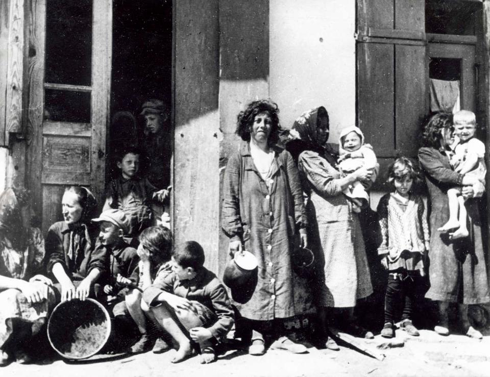 Jews of Lviv during Second World War. Presumably in Lviv (Lwów) ghetto. Ca 1941.